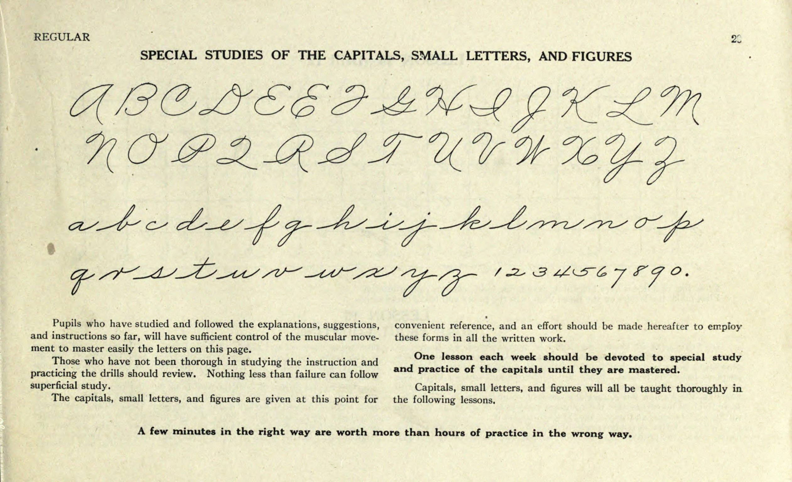 The Palmer Method of Business Writing. A.N. Palmer Published New York, etc., 1901. Page 29